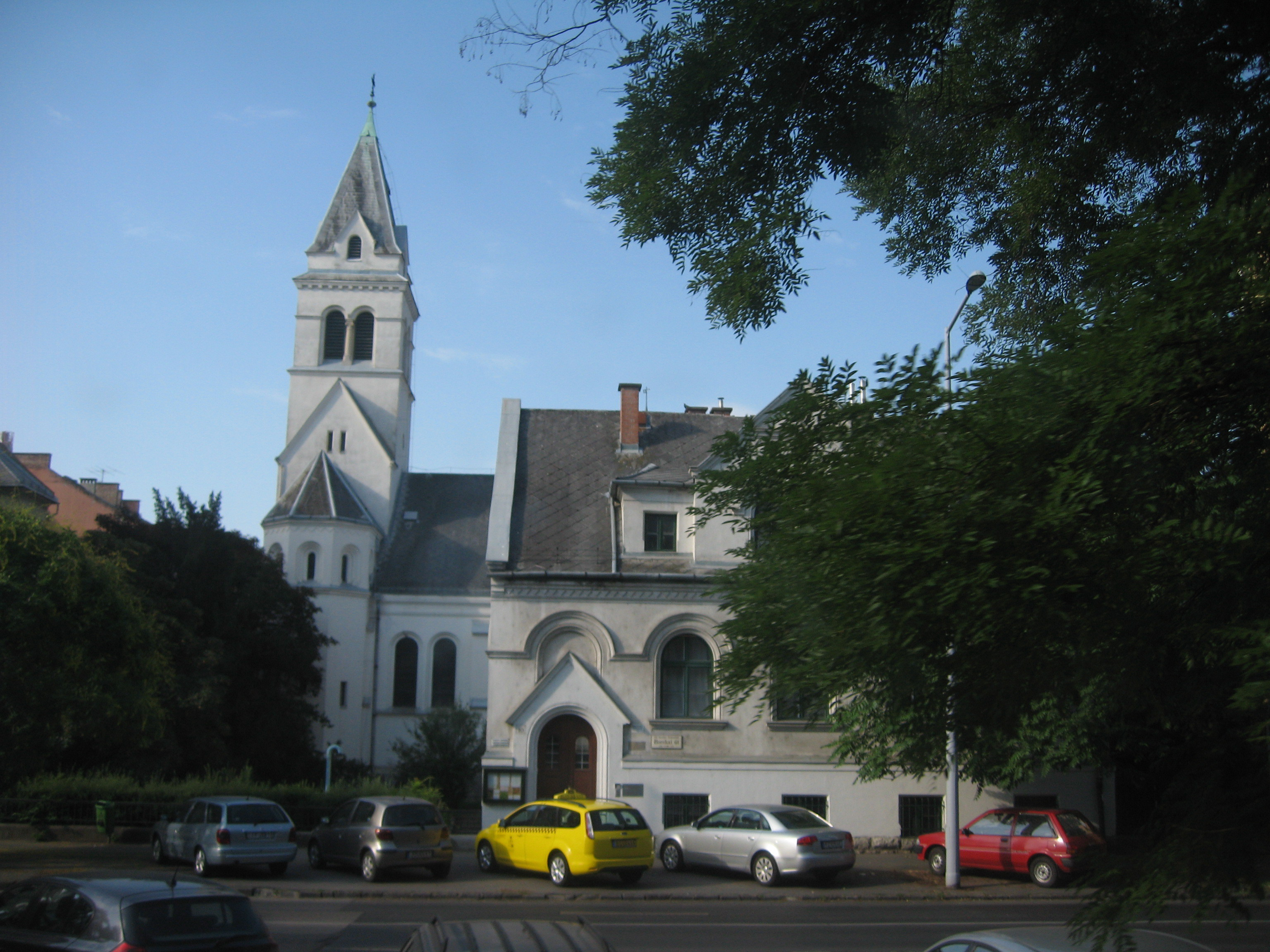 Evangelical church in Budapest XI, Kelenfold neighborhood, Bocskai RoadKelenföldi Evangélikus Egyházközség temploma. - Budapest, XI. Magyari István utca 1-3.Object location47° 28′ 26.76″ N, 19° 02′ 41.24″ E